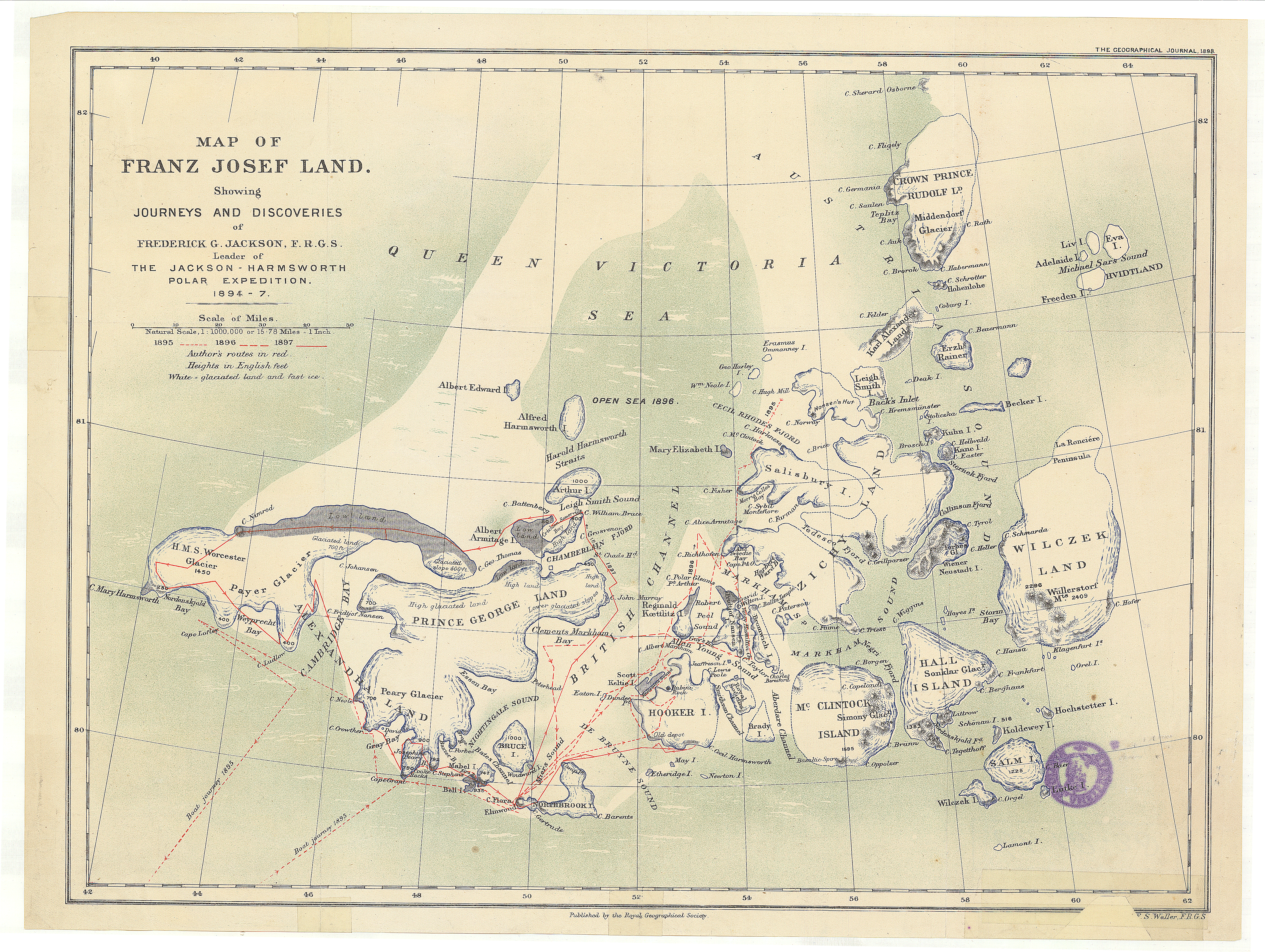 Author: Jackson, Frederick G. Organisation: Royal Geographical Society Scale: 1:1.000.000 Publisher: [London] Royal Geographical Society Date: 1898 Size: lithogr., color, 31 × 41 cm Annotation: Published in v. 11, no. 2, February 1898 issue of the Geographical Journal.